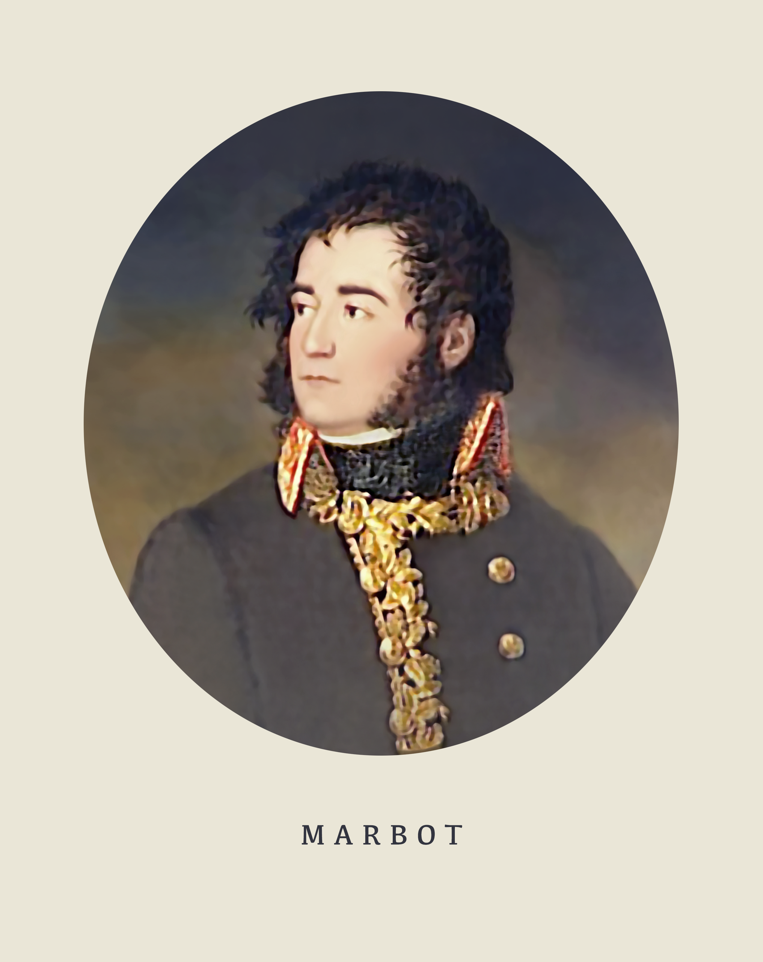 Jean-Antoine Marbot, French general (1754-1800)